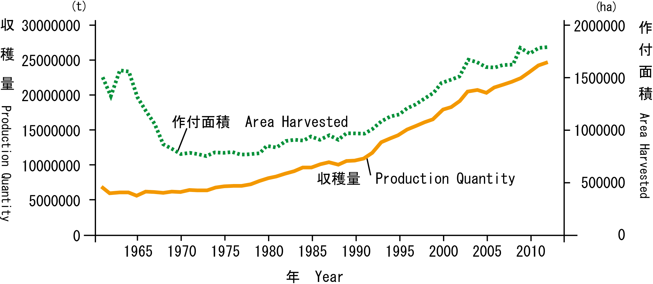 These graphs show production quantity and area harvested of pumpkins, squash and gourds in the world from 1961 to 2012. Data source is FAOSTAT.